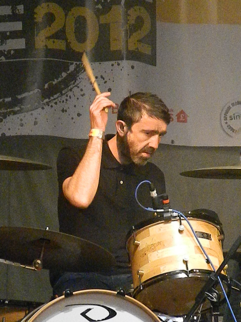 Andy Hargreaves on I Am Kloot show in Doncaster, England (8th September 2012)